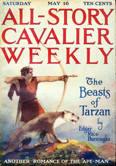 The All-Story, May 16, 1914